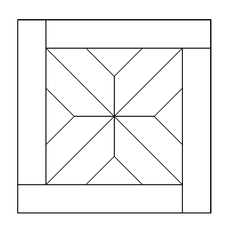 Один из видов рисунка модульного паркета